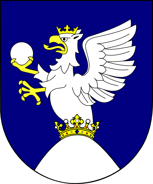 Coat of arms (shield only) of György cardinal Draskovich / Juraj cardinal Drašković, bishop of Pécs, Hungary (1560 - 1564), bishop of Zagreb, Croatia (1564 - 1578), bishop of Győr, Hungary (1578 - 1582), archbishop of Kalocsa, Hungary (1582 - 1587). Identical with Draskovich family arms.